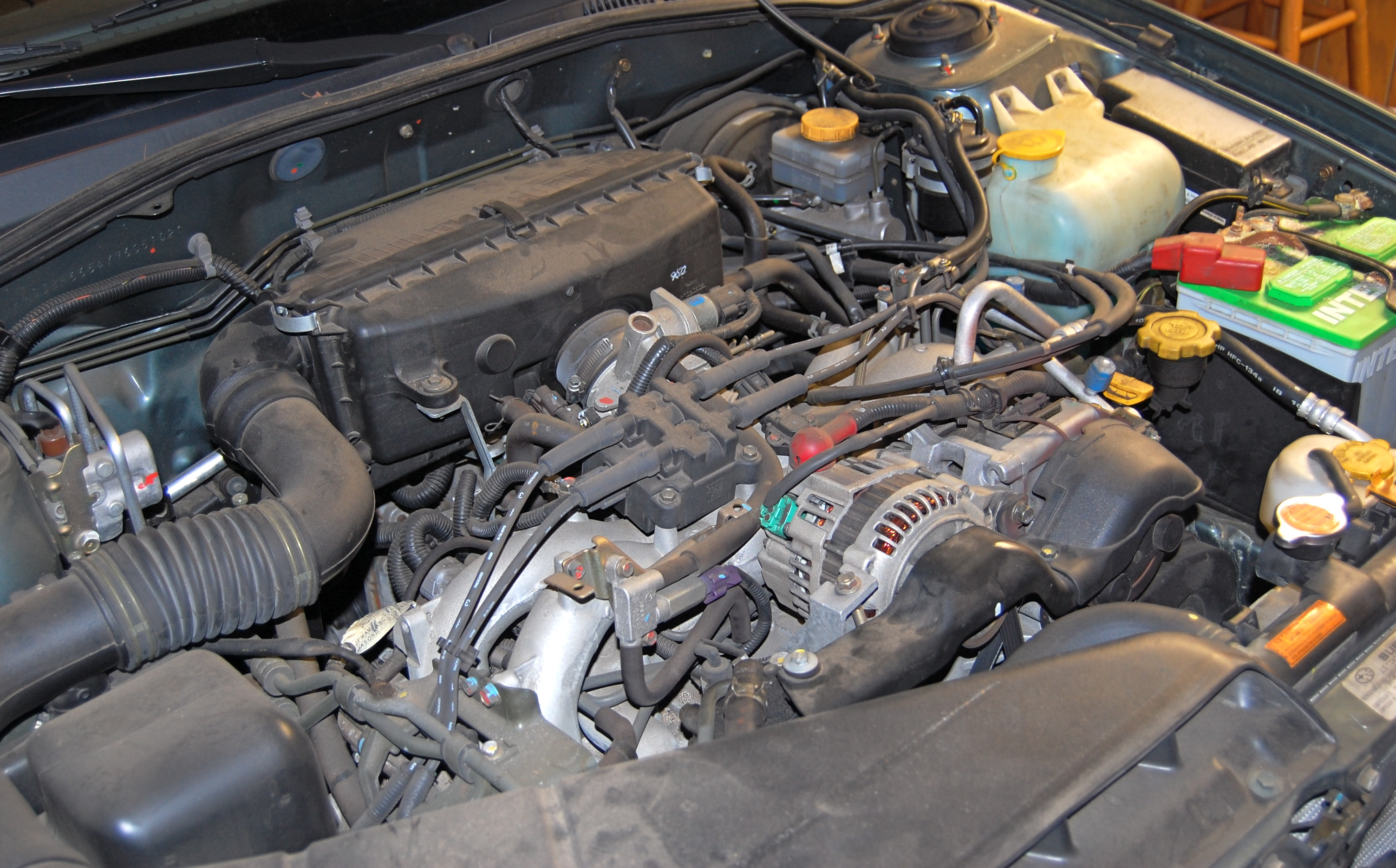 Subaru EJ251 boxer engine in an Outback wagon.